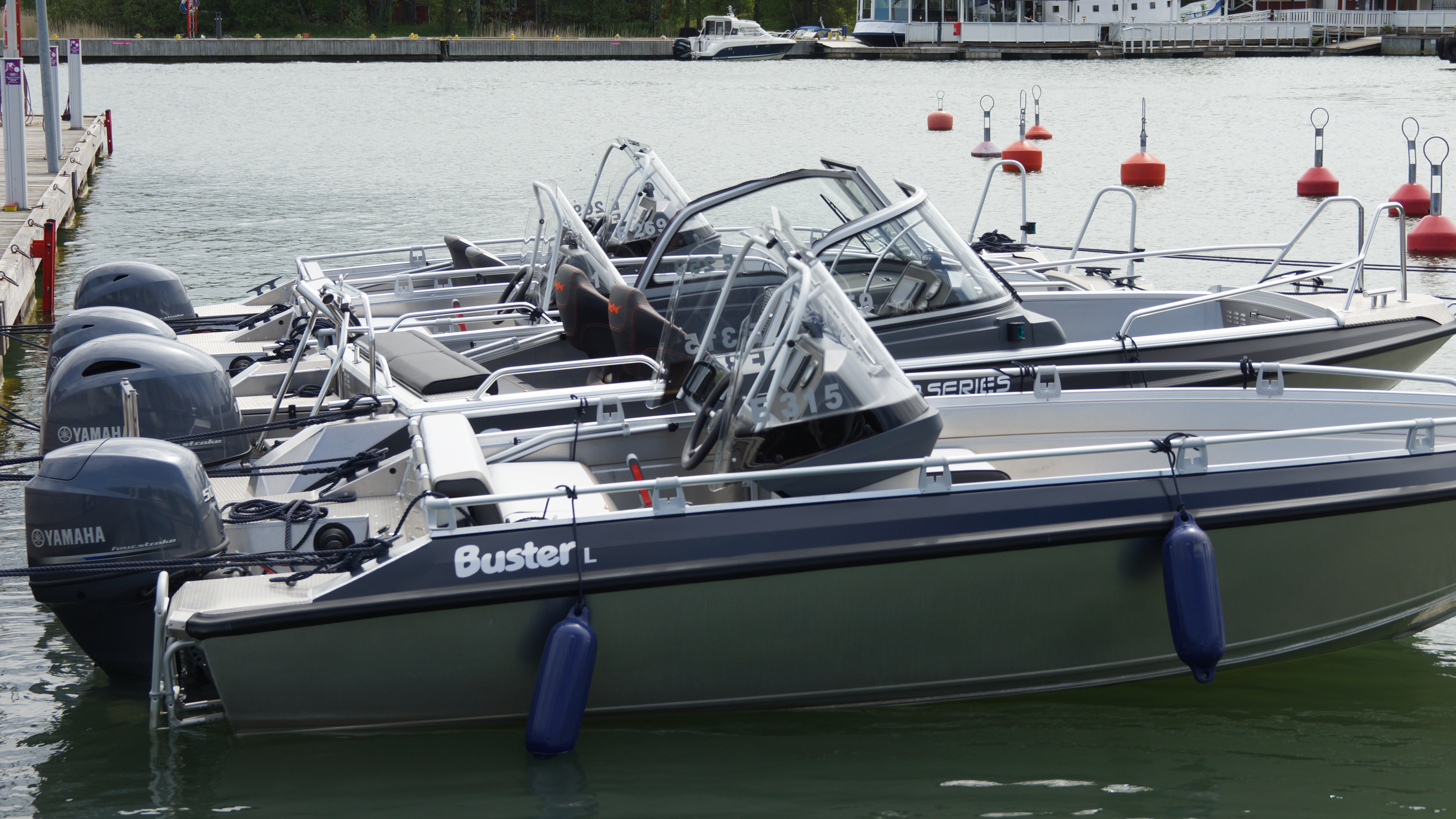 Buster L aluminium powerboat, Nauvo Marina, The Archipelago Sea, Finland. The Buster L is the most popular motorboat in Nordic countries.